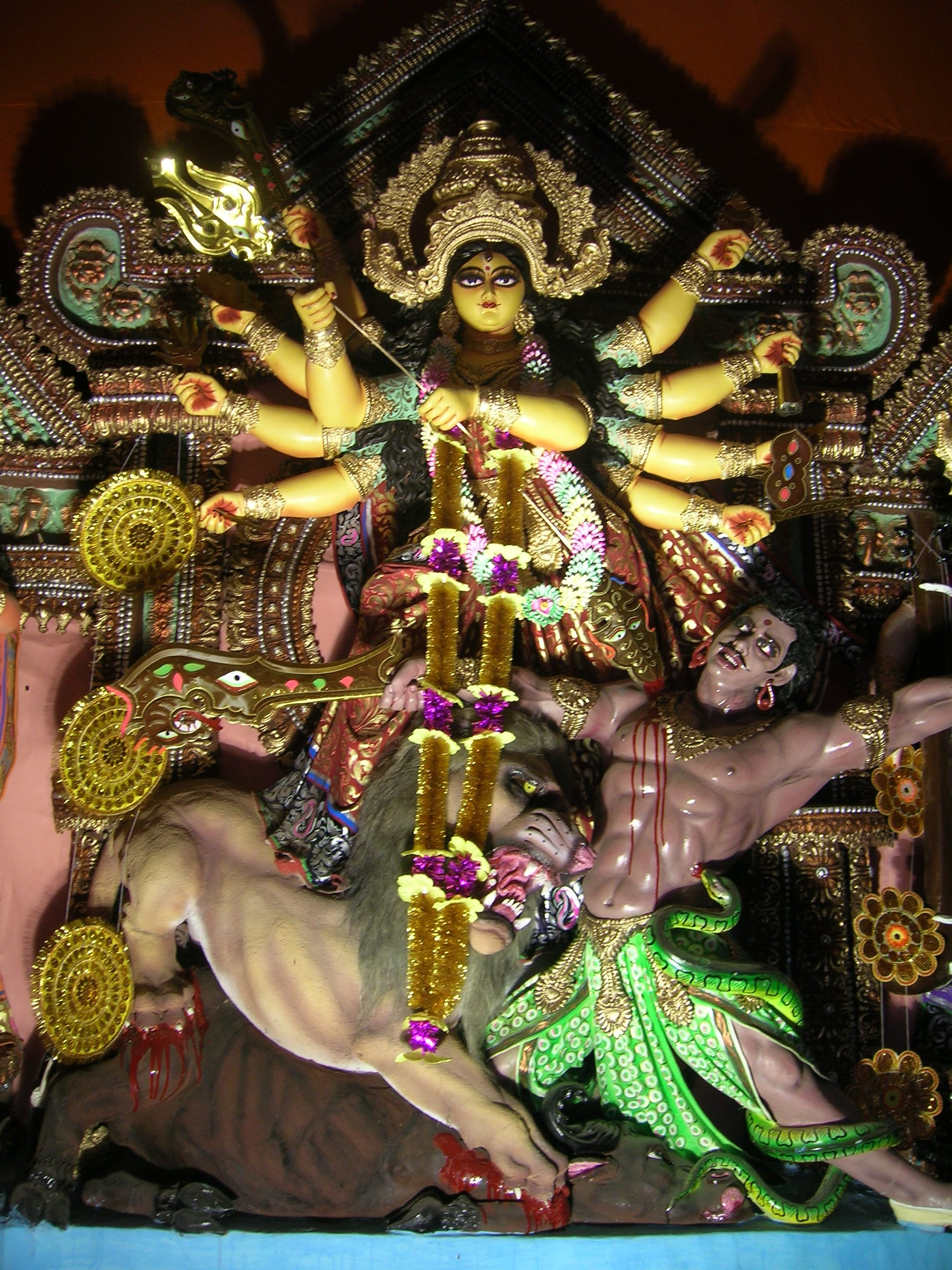 Durga (frontal view) at Barisha Sarbojanin Durga Puja Samiti, Kolkata, 2010.